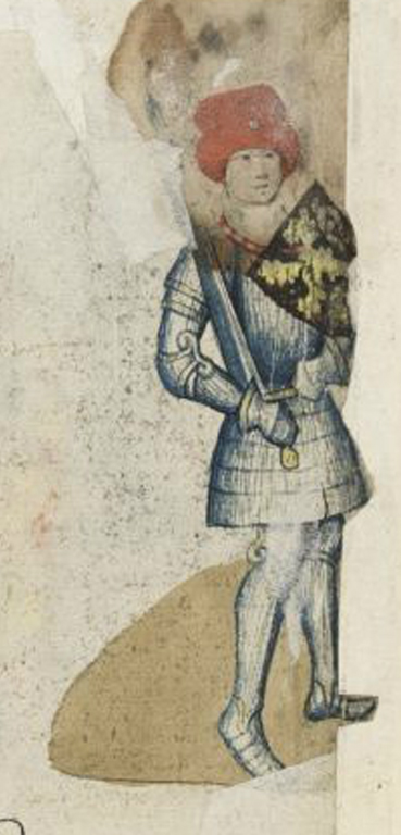 Godfrey I of Leuven